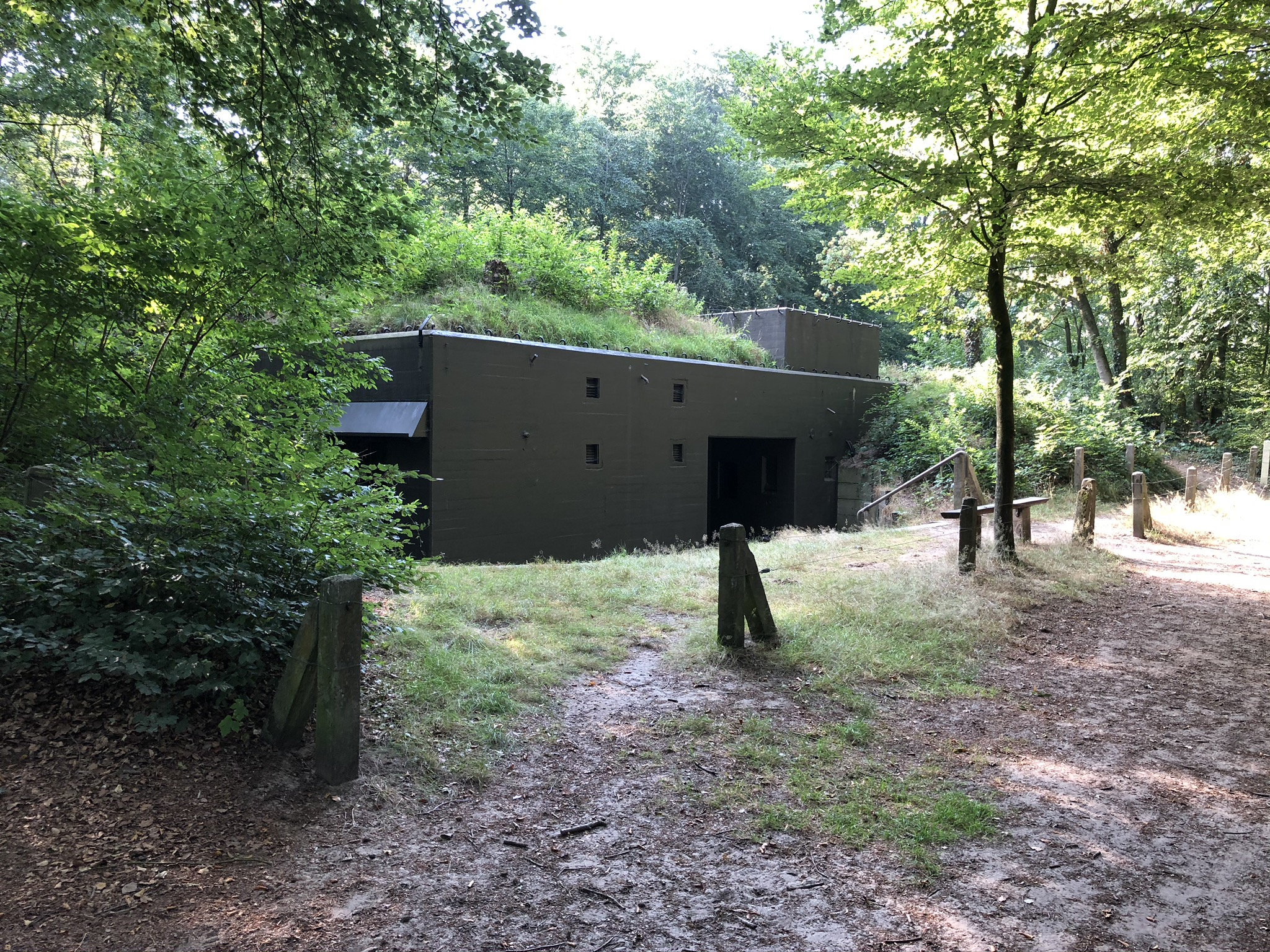 Bunker of the IJsselinie near Olst, The Netherlands